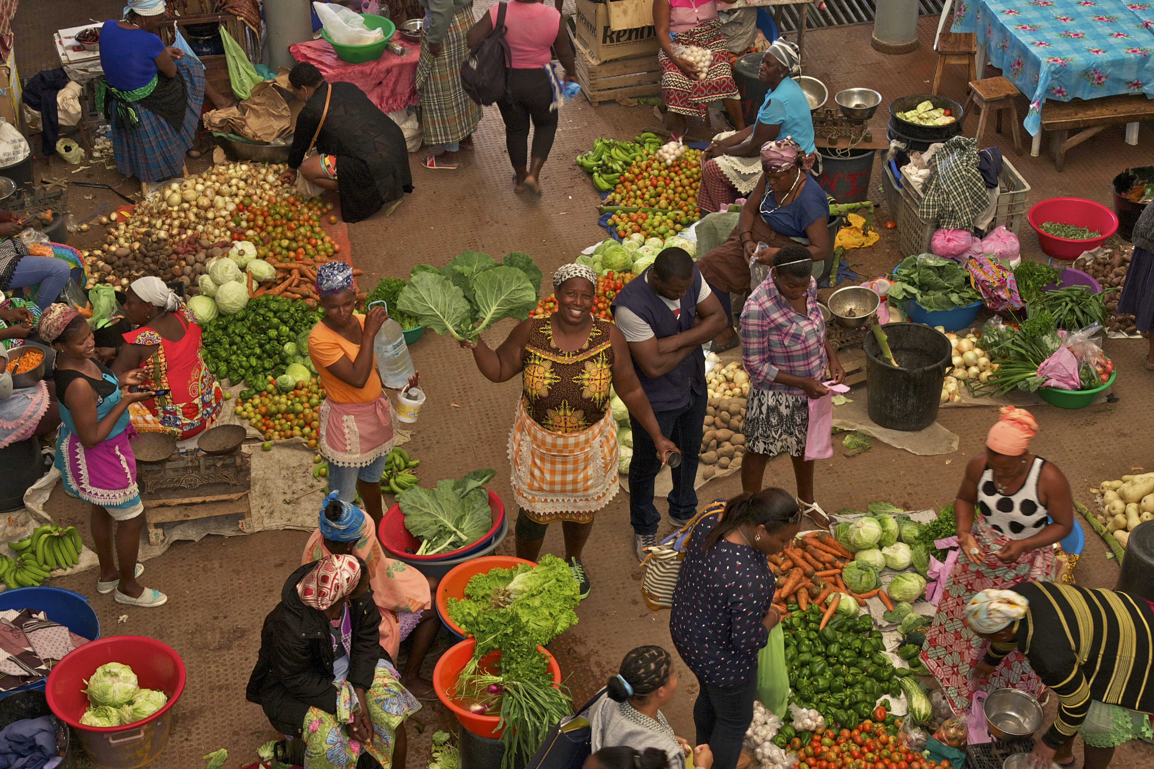 This is an image with the theme "Africa on the Move or Transport" from: Cape Verde